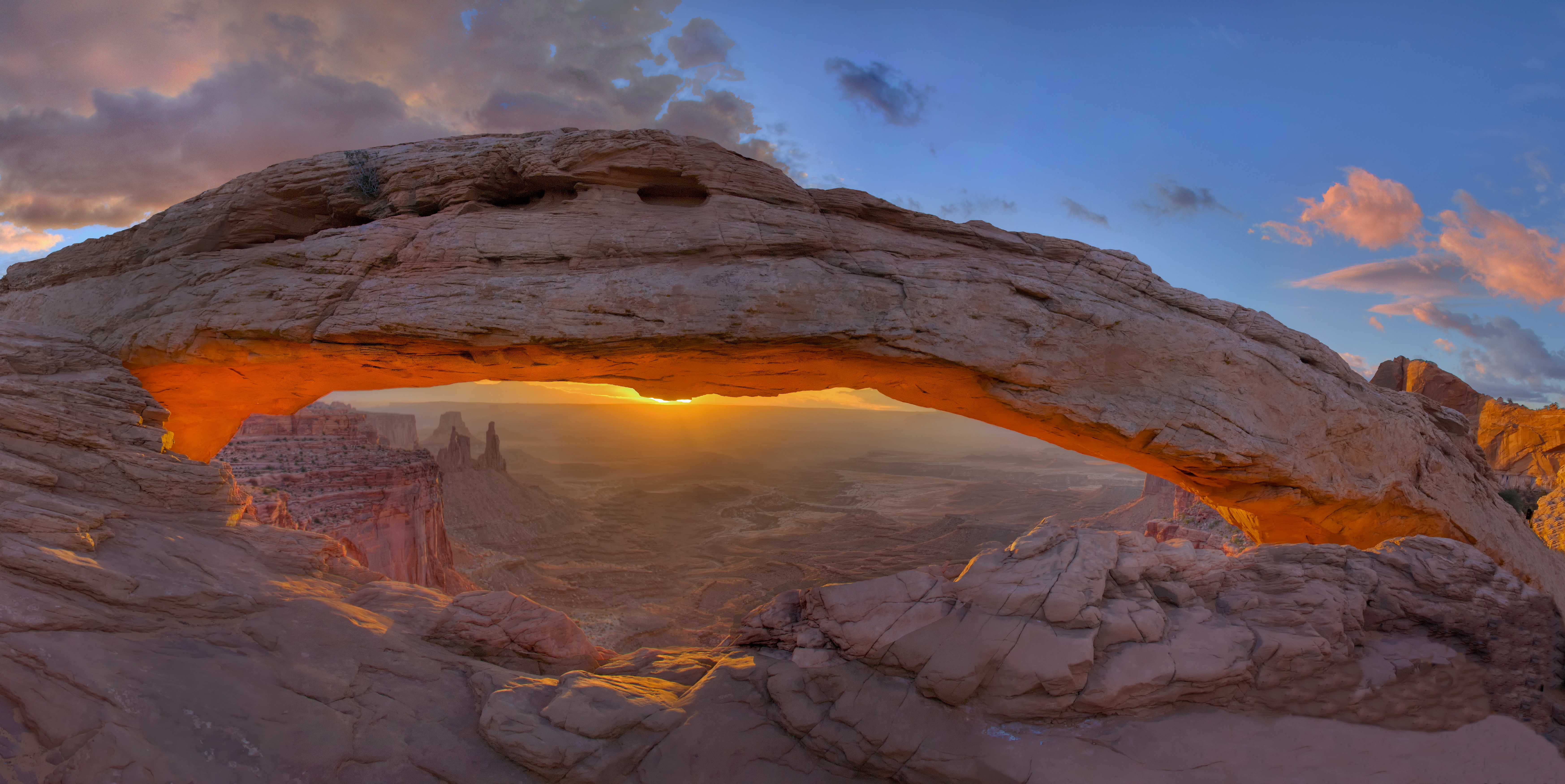 Mesa Arch, in Canyonlands, UT.